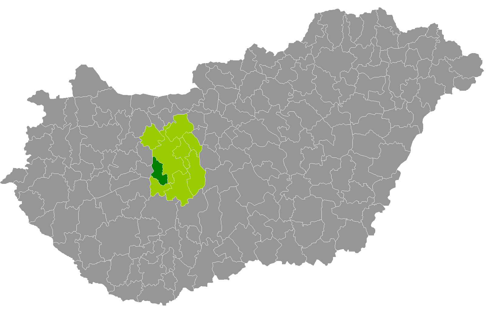 Location of Polgárdi District, Fejér, Hungary